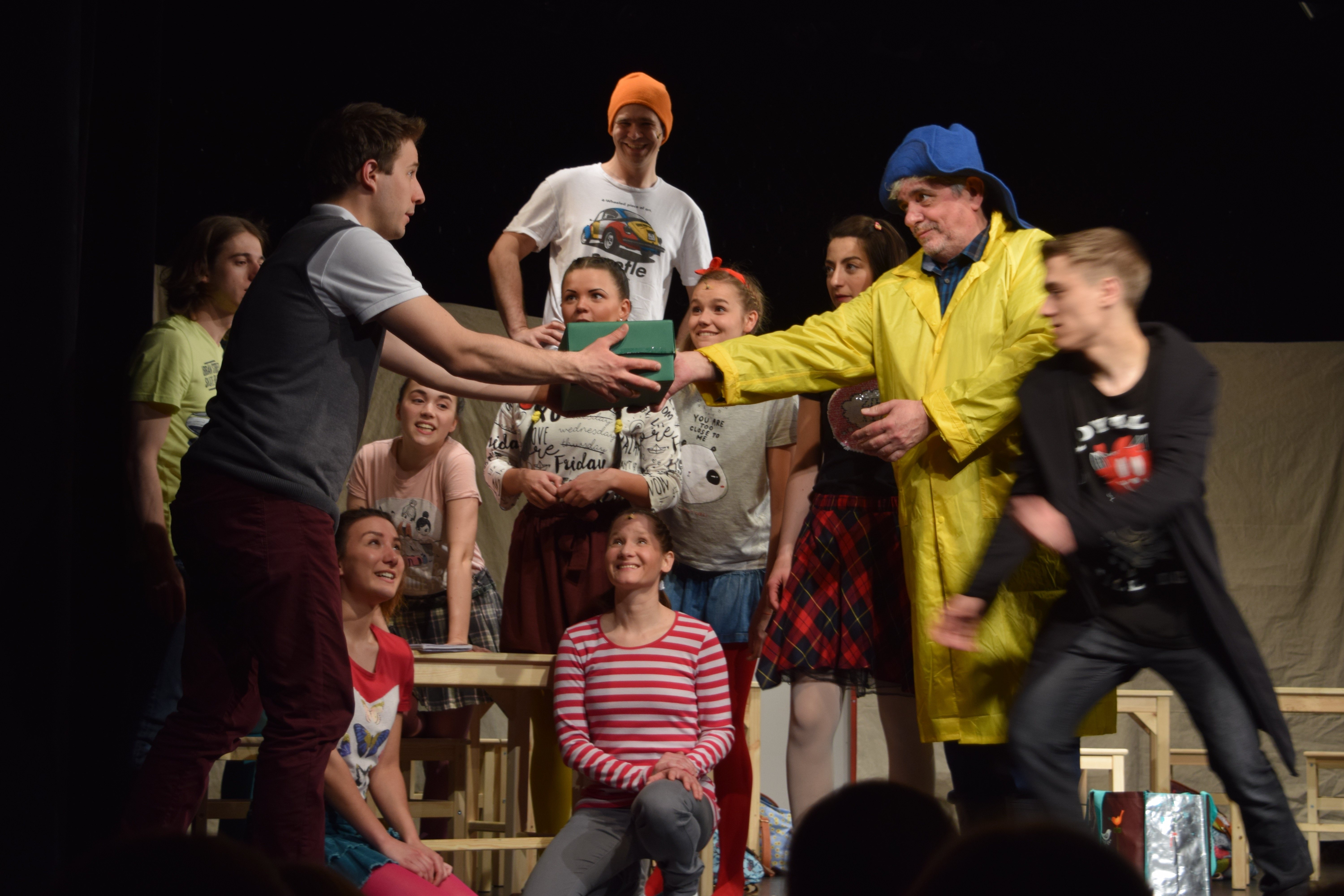 Theatre performance "School of the magical animals" in Budapest